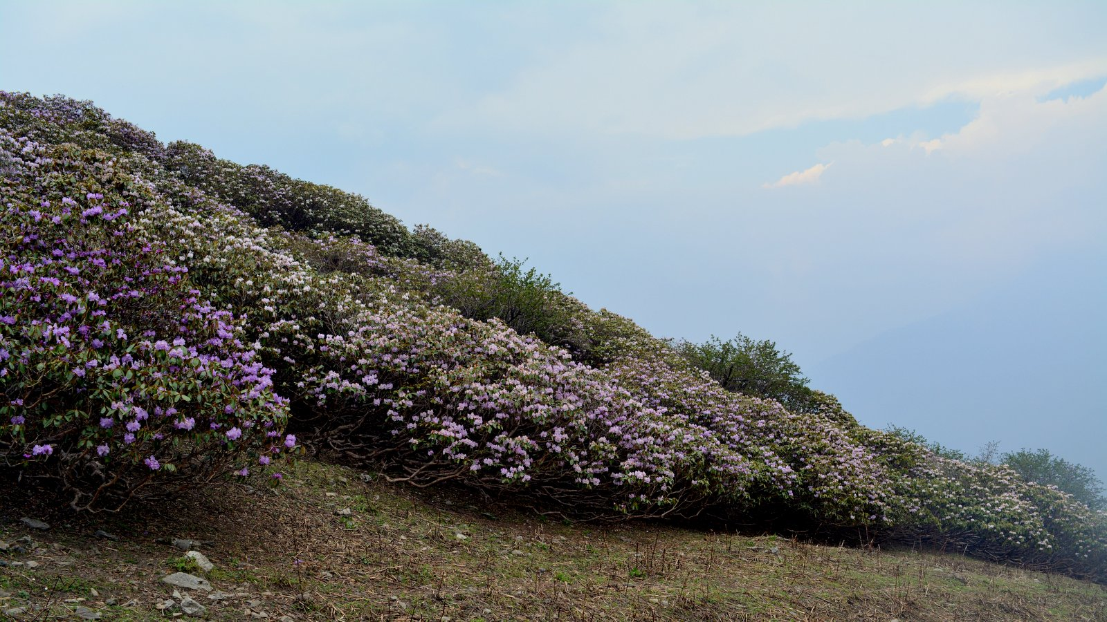 Rhododendron campanulatum natural shrubbery within Nanda Devi Biosphere Reserve.